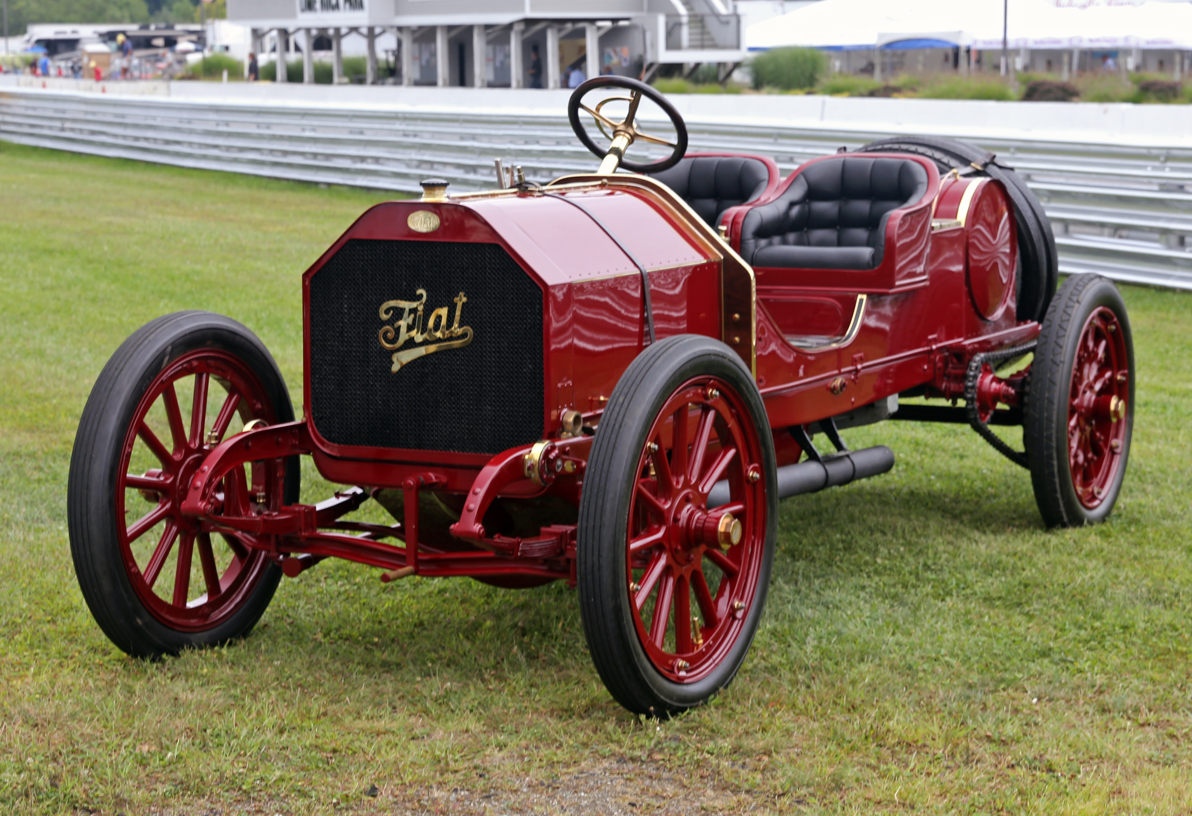 A 1907 Fiat 28-40HP Targa Florio Corsa at the 2014 Lime Rock Concours d'Élegance. This chain-driven 60CV monster belongs to brothers George and Manny Dragone of Bridgeport, CT., and was one of five built to take part in the 1907 Targa Florio race.